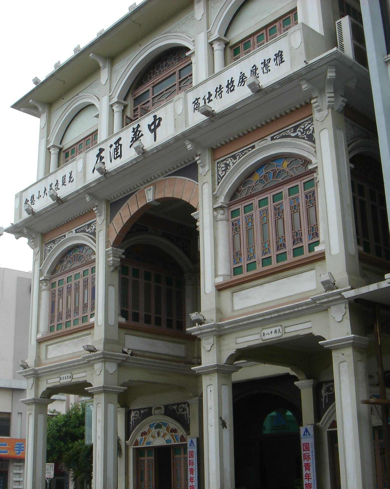 Jiangmen city, waterfront district, renovated building, April 2005